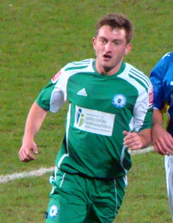 Lee Frecklington